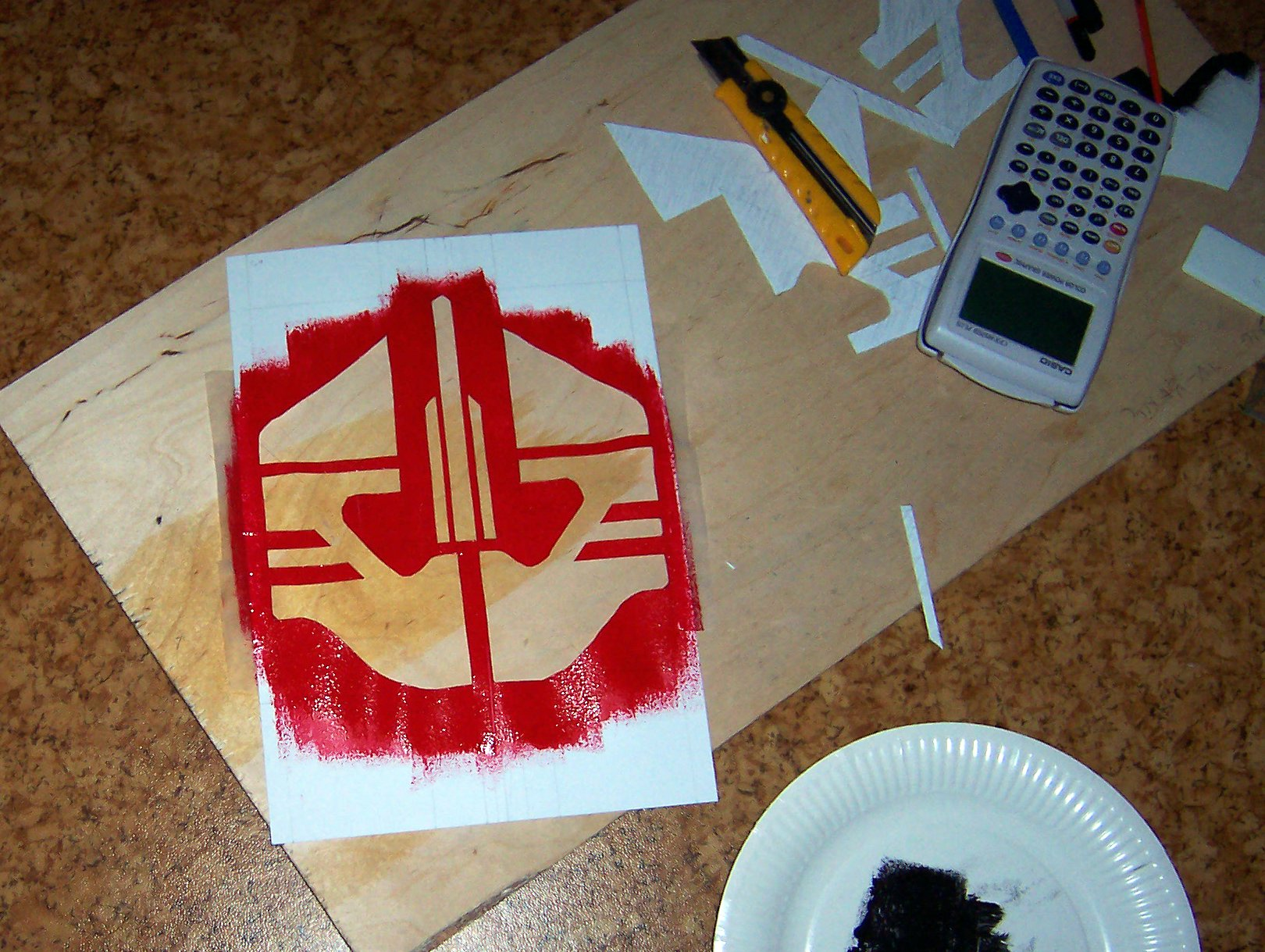 A painted stencil and the tools used to make it.